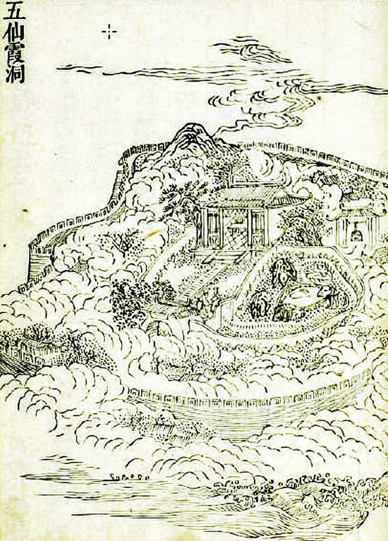 An image of the Grotto of the Five Immortals in Guangzhou ("Sheep City") during the Qianlong Era of the Qing Dynasty.